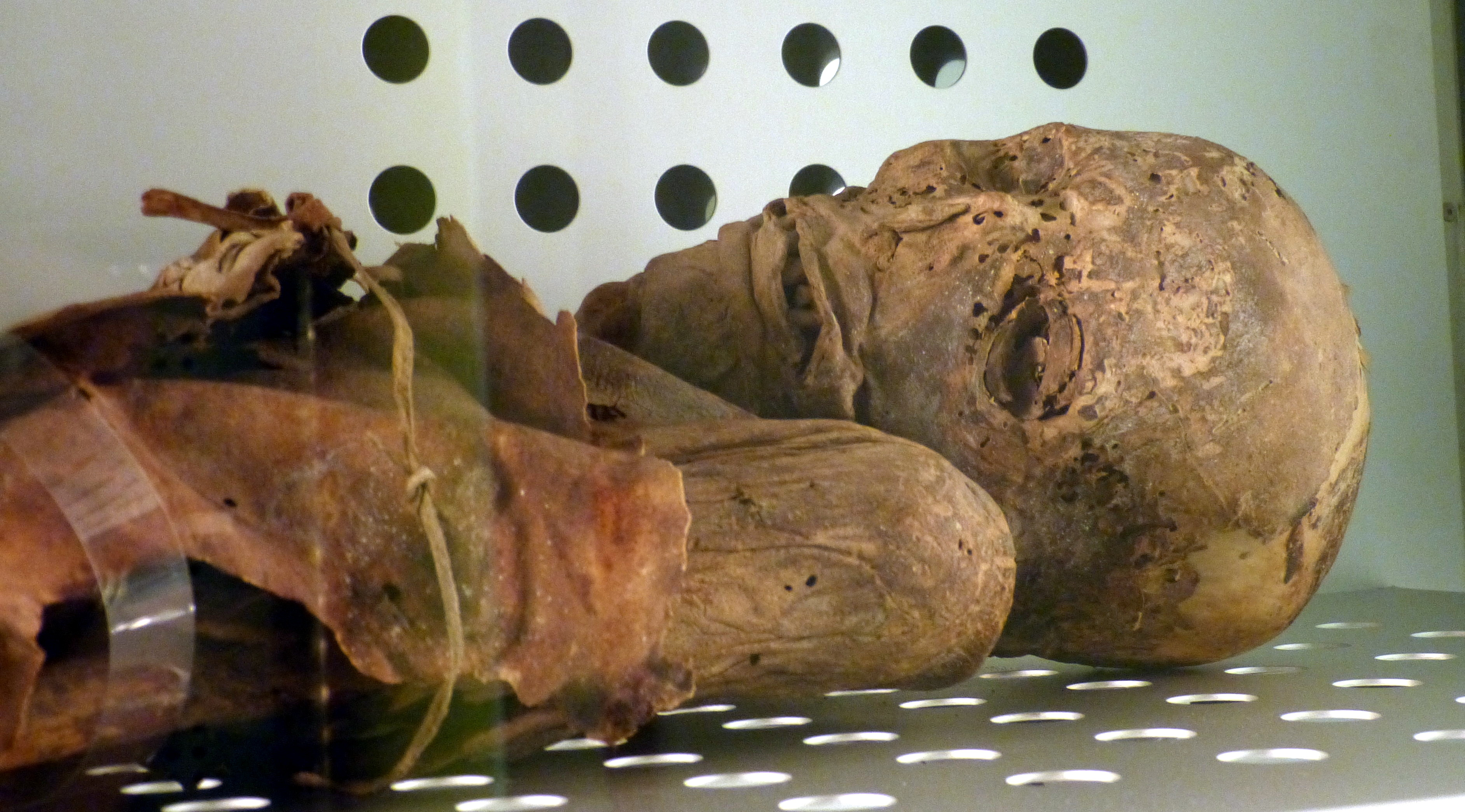 Santa Cruz de Tenerife ( Spain ). Museo de la Naturaleza y el Hombre - Guanche collections: Mummy of a man, 25-30 years old, 1,69m tall, covered with goat skin, from San Andrés ( Tenerife )